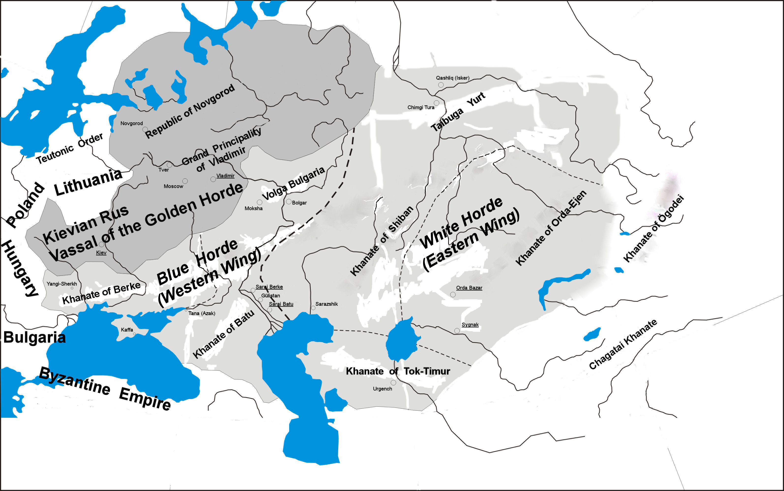 This is a translated version of . It is a derivate work of a map licensed under the Creative Commons License. This license also applies to this work. The work has been published in Familypedia and is transferred from that site.